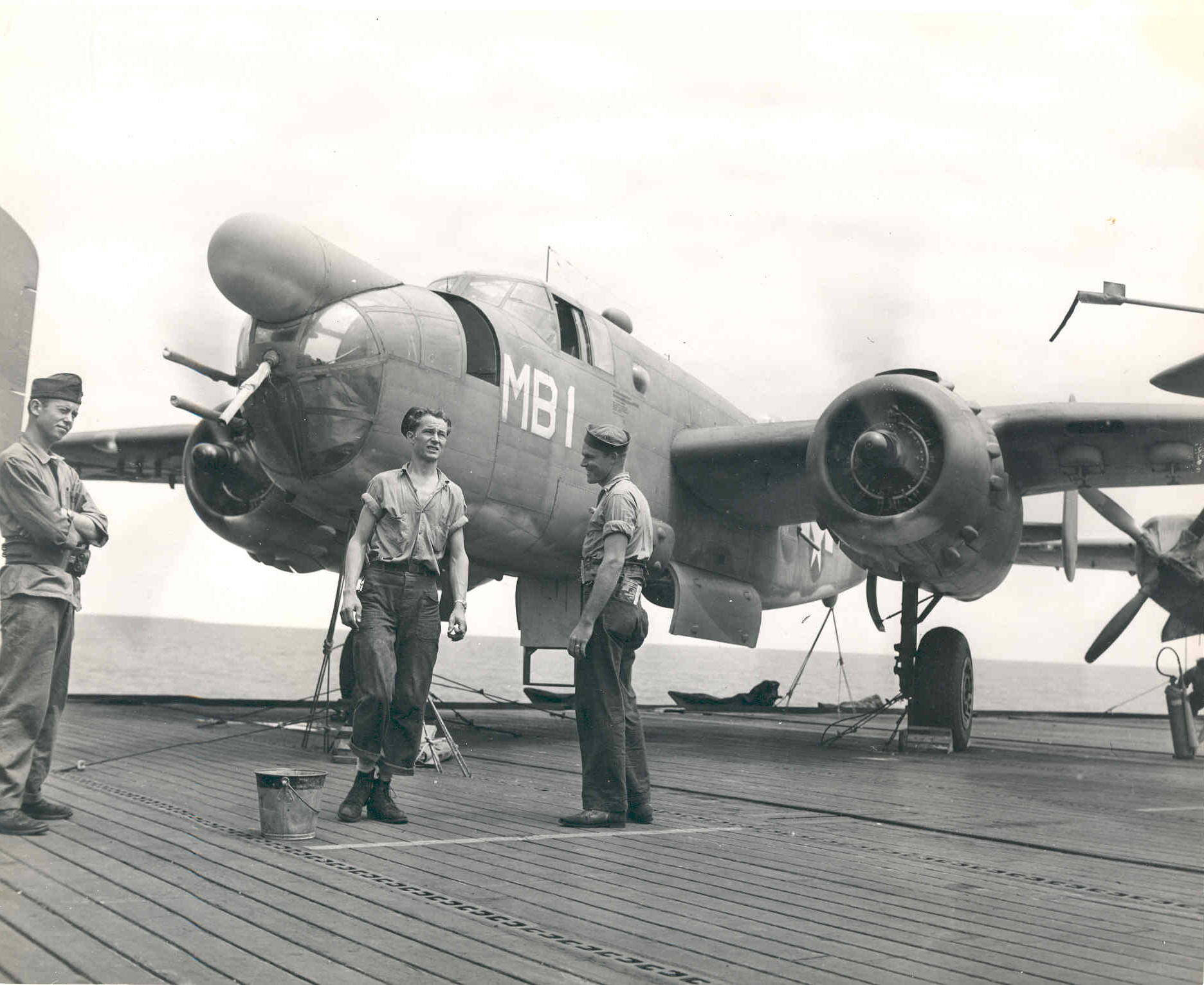 A North American PBJ-1D Mitchell bomber of U.S. Marine Corps bombing squadron VMB-611 spotted on the deck of the escort carrier USS Manila Bay (CVE-61) during transport of the squadron's flight echelon to its operating area in the Pacific, August 1944.